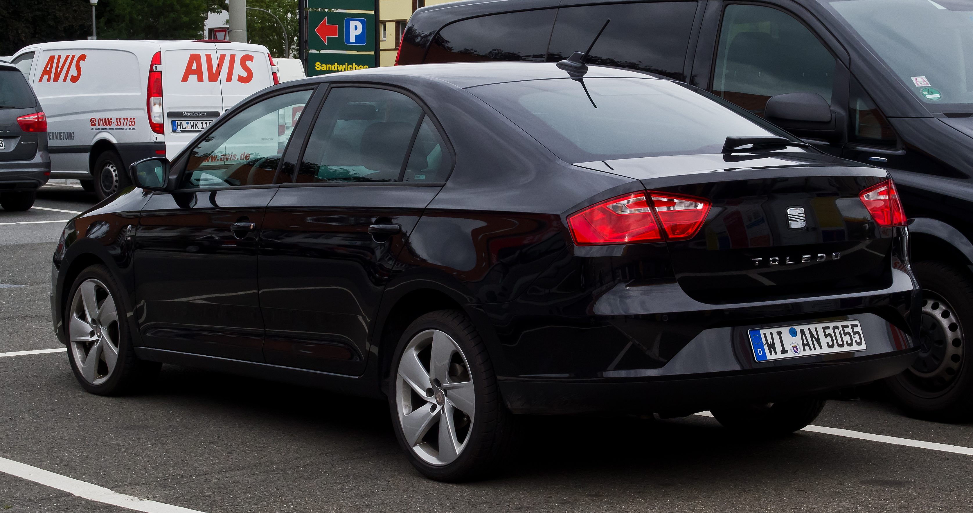 Seat Toledo 1.4 TSI Style Salsa (IV)